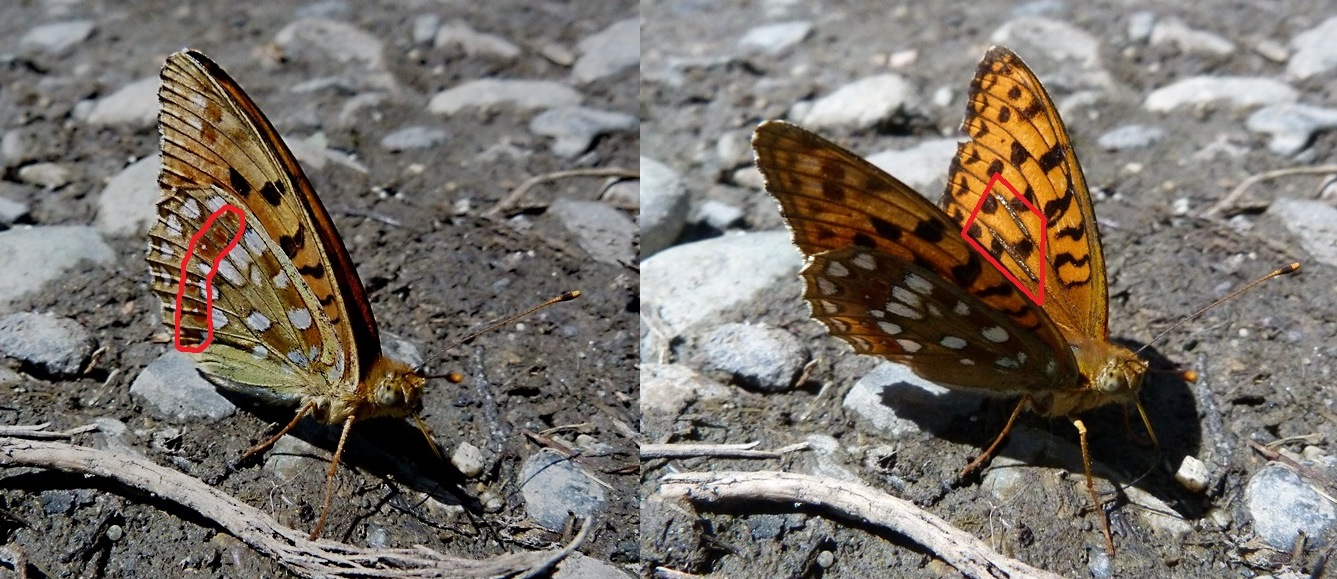 Keys for A. adippe identification. Specimen near Cavallers Dam, Catalonia.